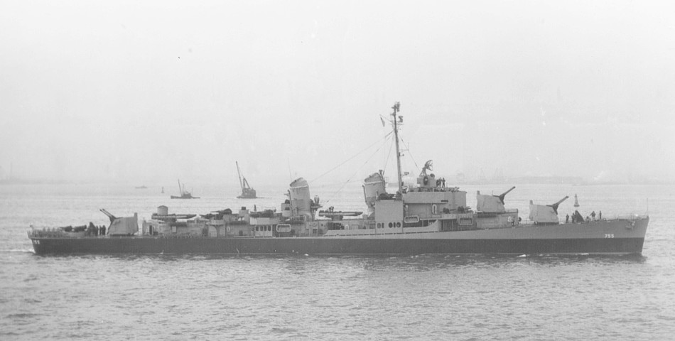 The U.S. Navy destroyer USS John A. Bole (DD-755) underway, circa in March 1945.